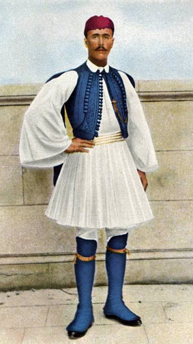 Spiridon Louis, 1896 Olympic marathon champion